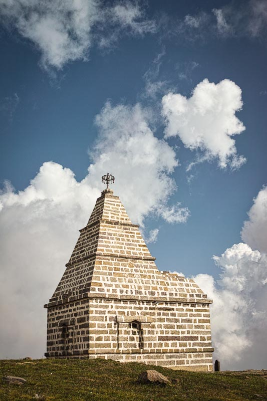 Shankh Pal temple is located at an altitude of 2,897 metres, the temple is just a few hours' walk away from Sanasar.